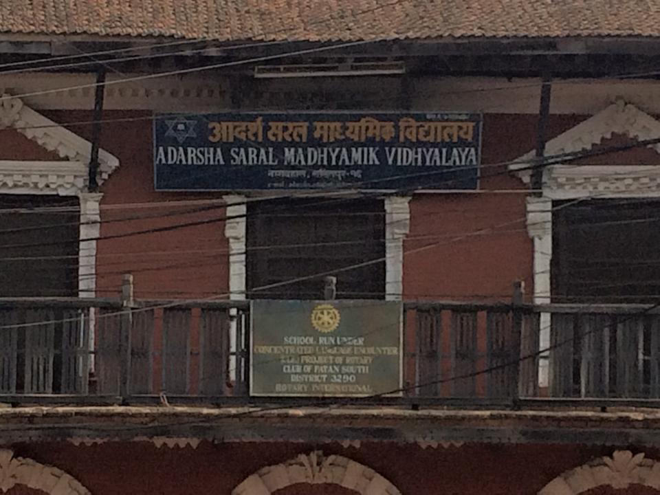 अादर्श सरल माध्यमिक विद्यालय